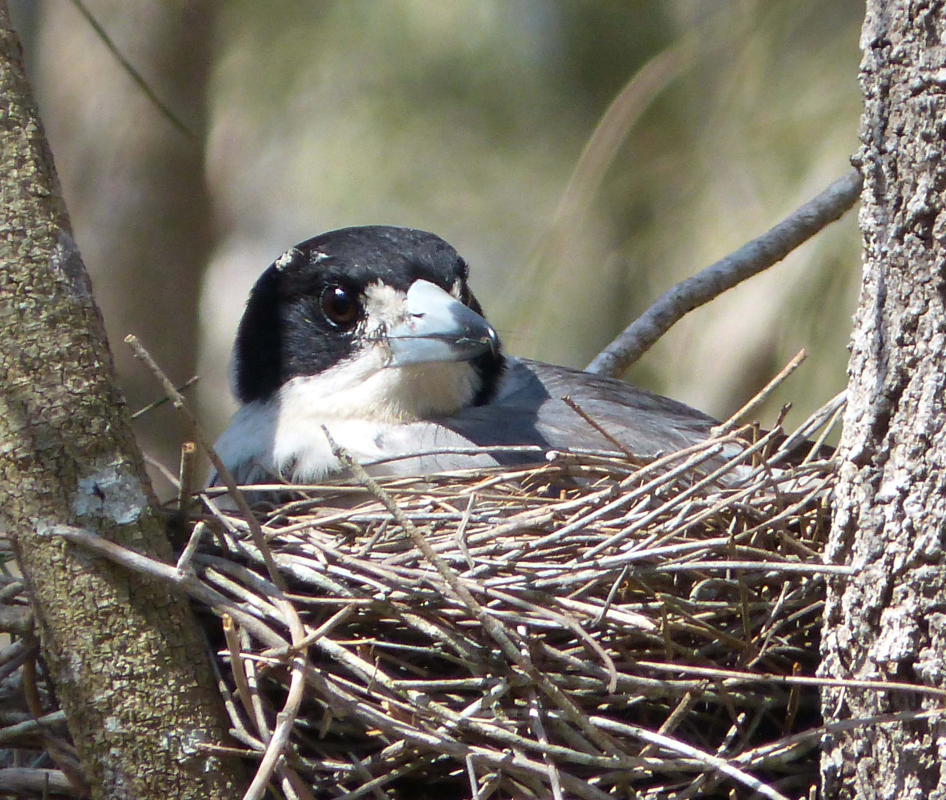 Boondall Wetland Reserve. Brisbane. QLD